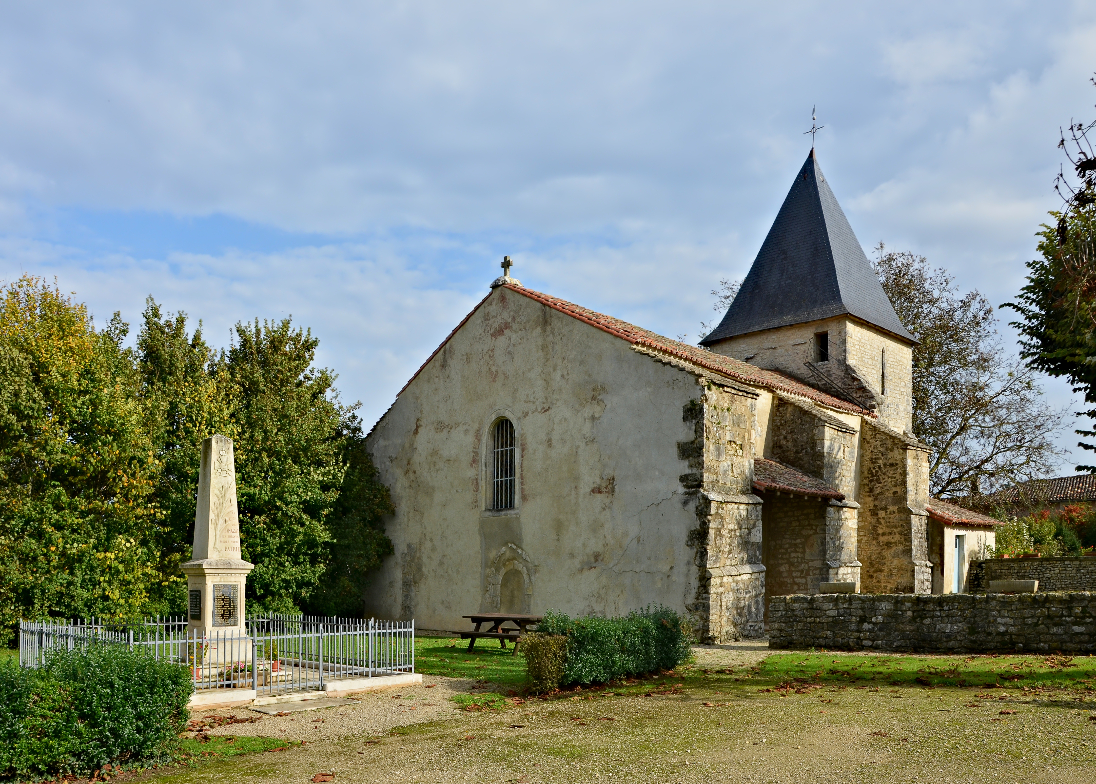 SW view of the church of Linazay, Vienne, France.